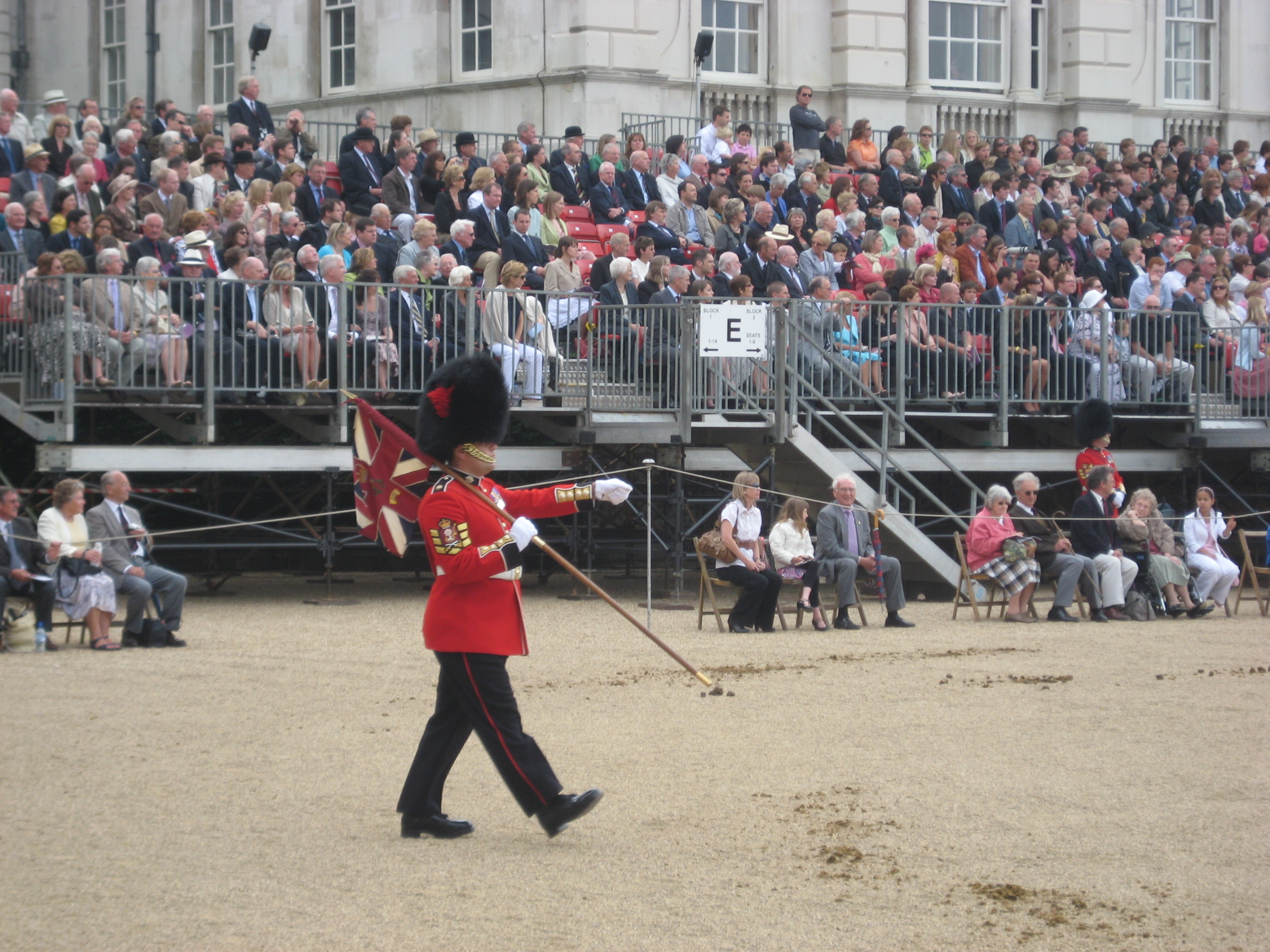 part of the Marker Detail on Horseguards Parade for Trooping of the Colour (the Colonel's Review) 2008